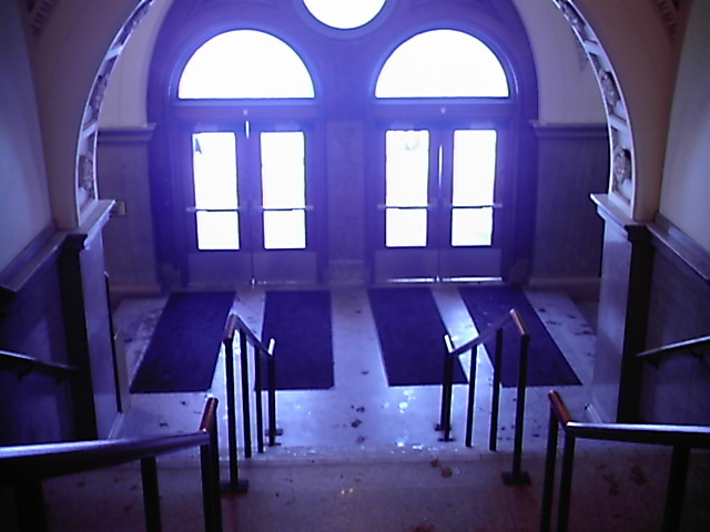 The entrance to the Old Main building, Wayne State University, Detroit, Michigan, United States.